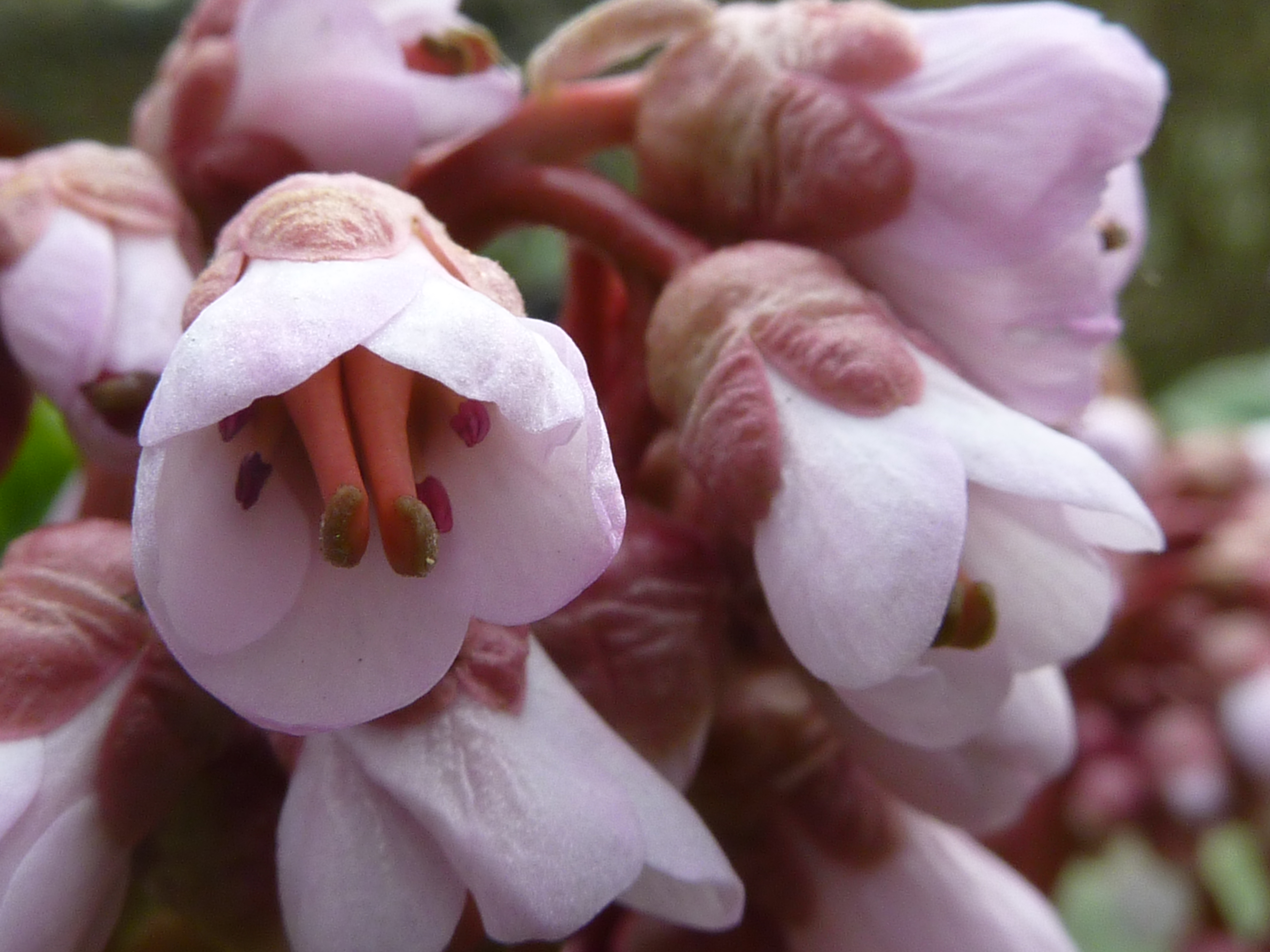 Taken in the Cambridge University Botanic Garden.